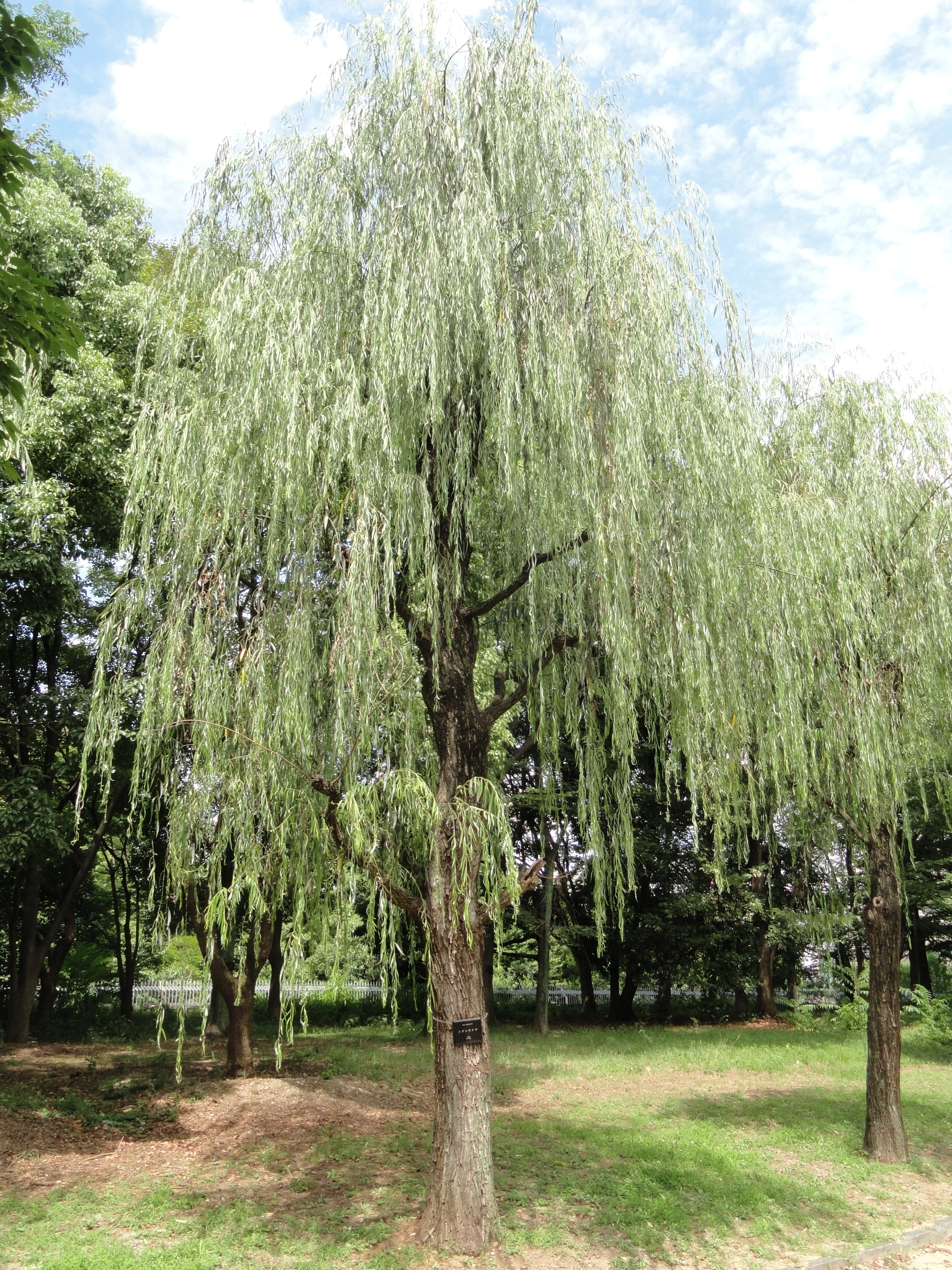 Botanical specimen in the Nagai Botanical Garden, Osaka, Japan.